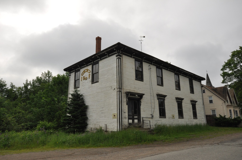 The old IOOF hall in Pembroke, Maine